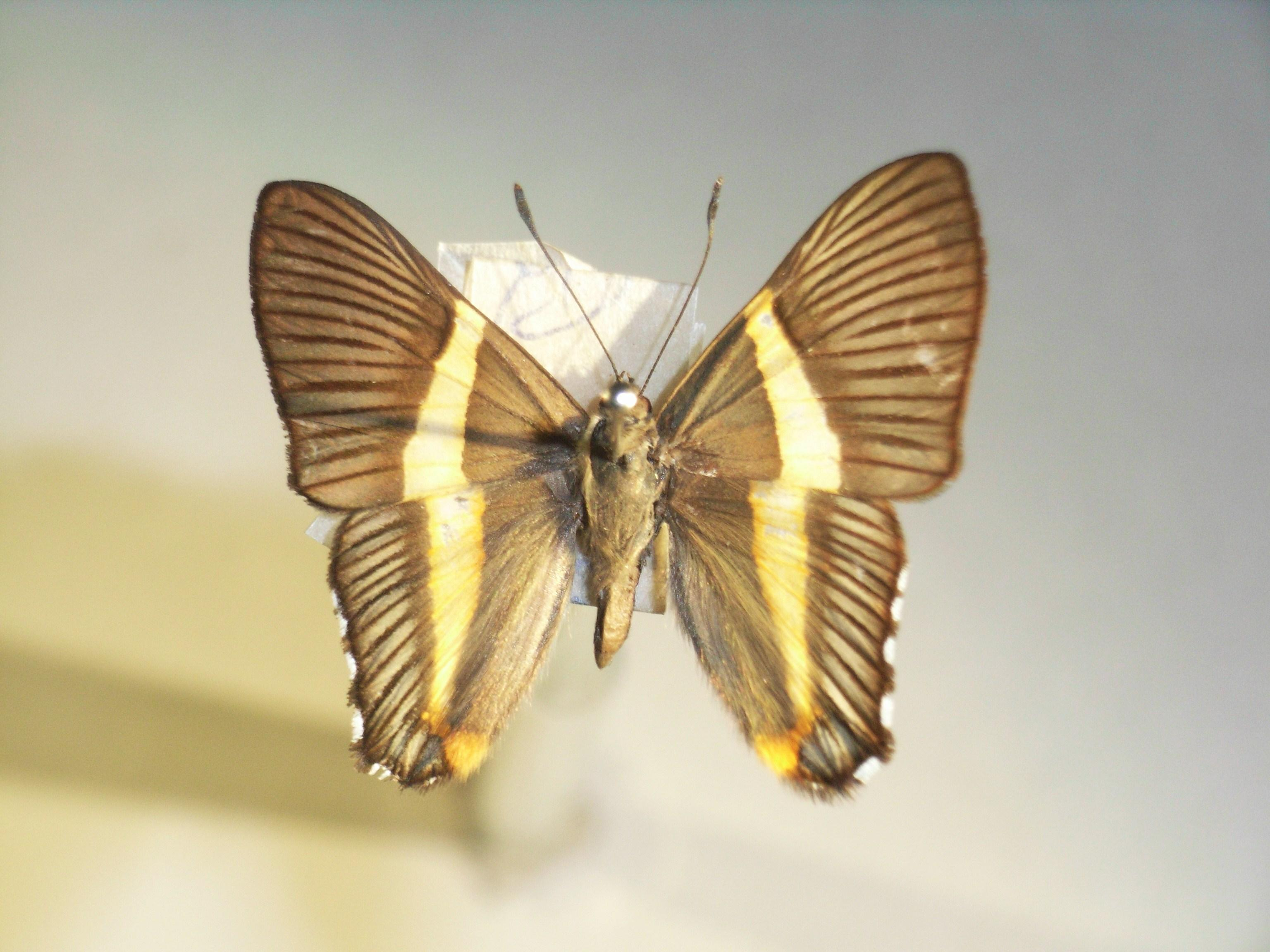 Siseme pallas xanthogramma:Riodinidae